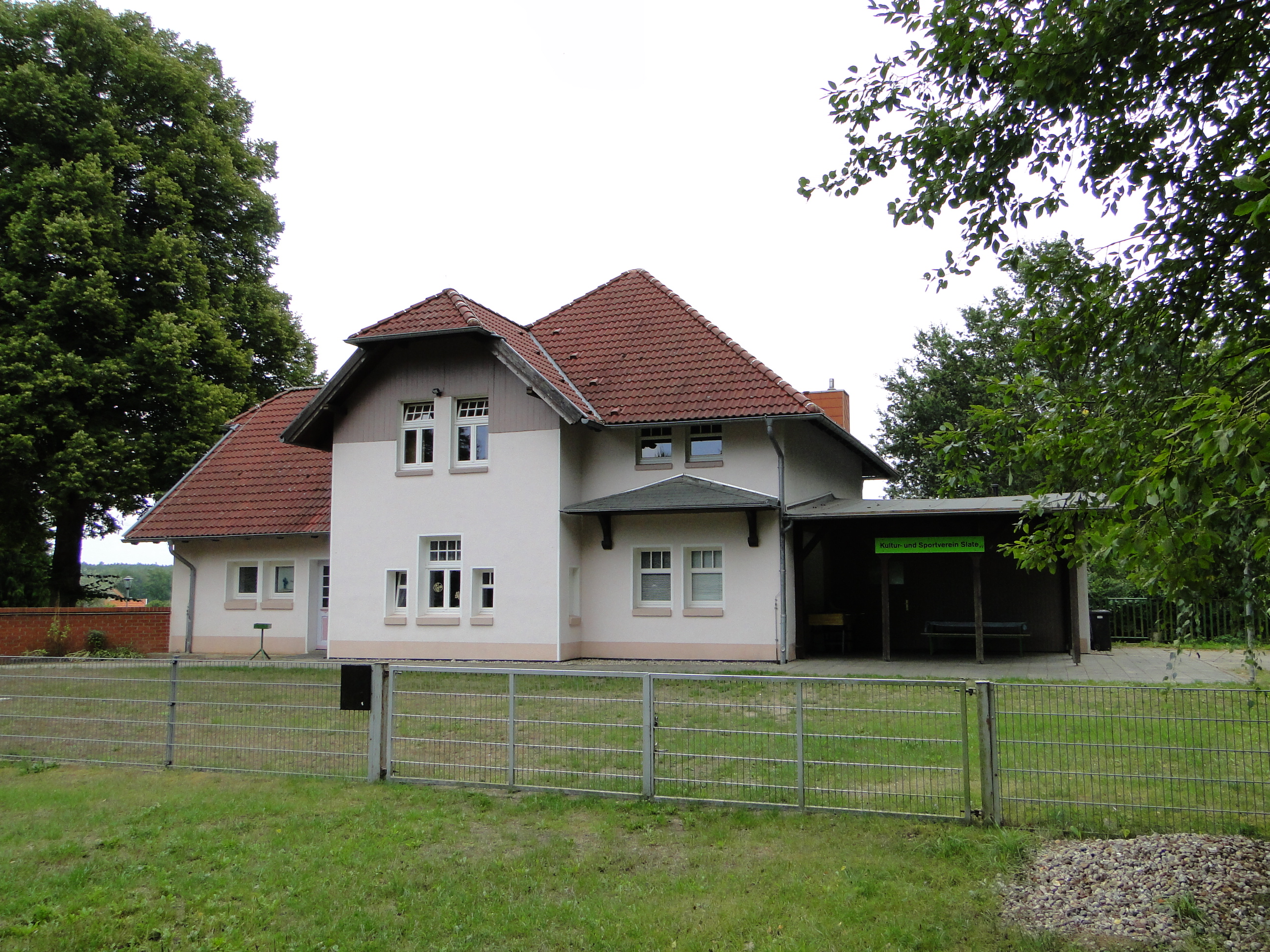 Train station building in Slate, district Parchim, Mecklenburg-Vorpommern, Germany